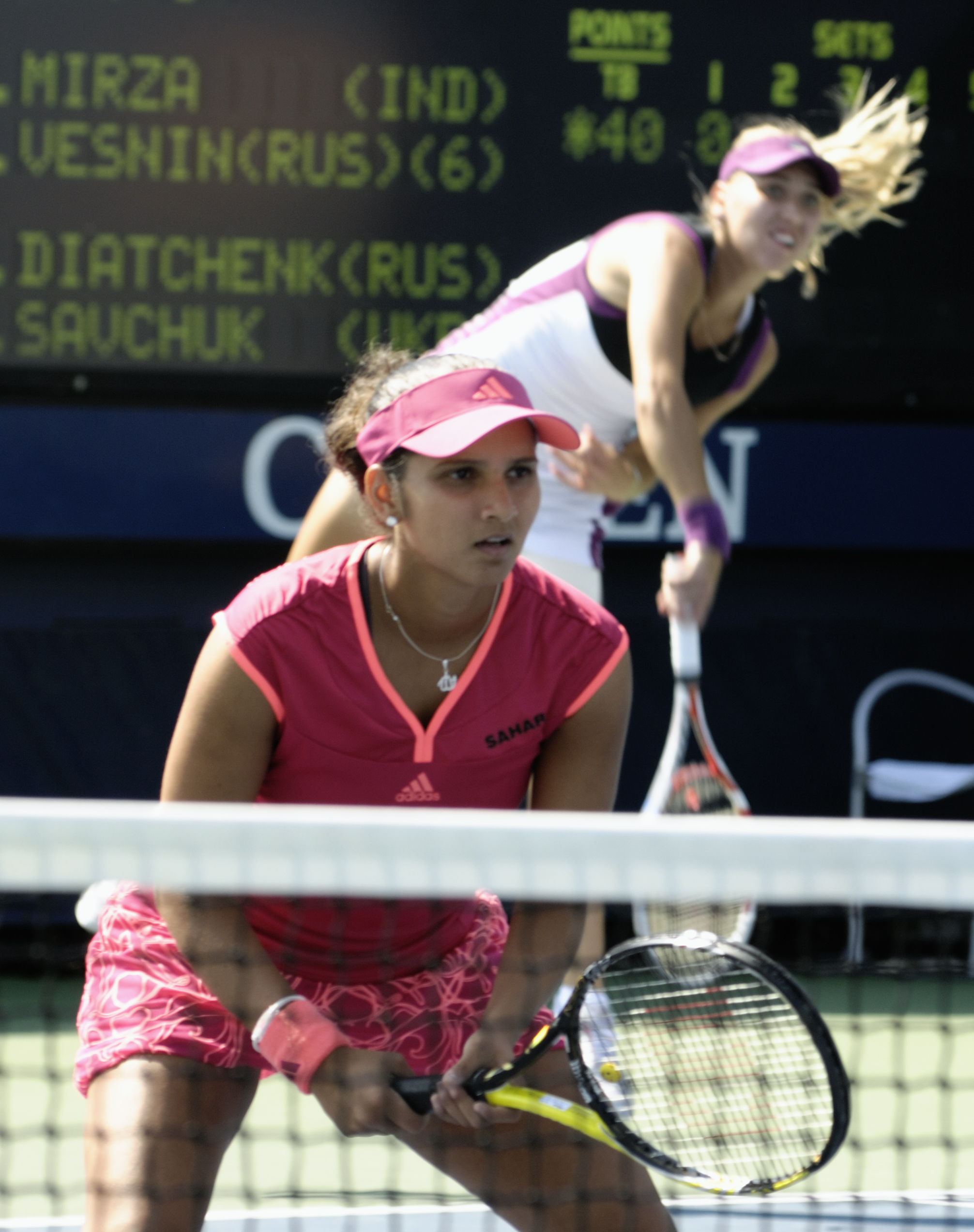 Doubles pairing at the 2011 USO